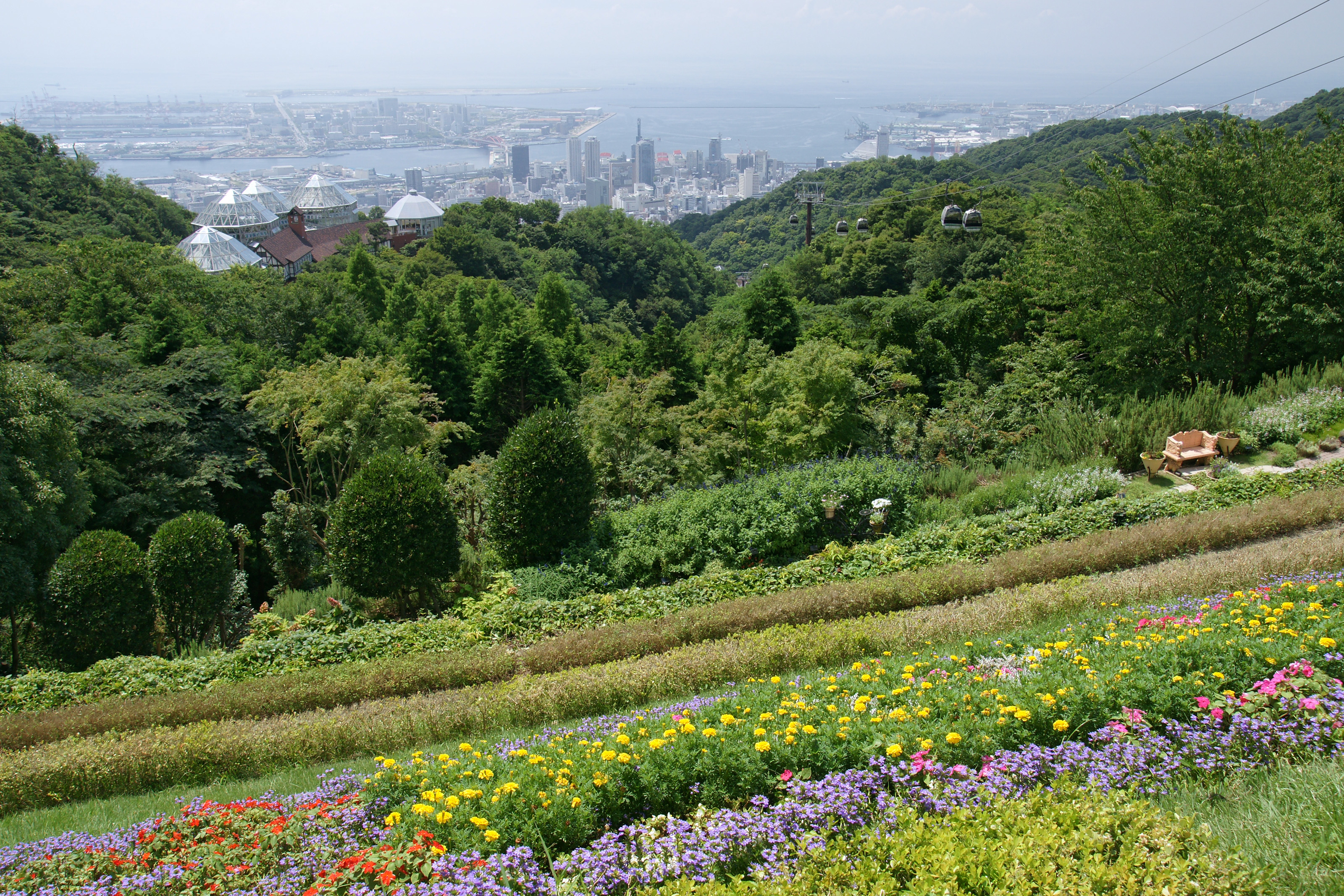 Nunobiki Herb Garden in Kobe, Hyogo prefecture, Japan